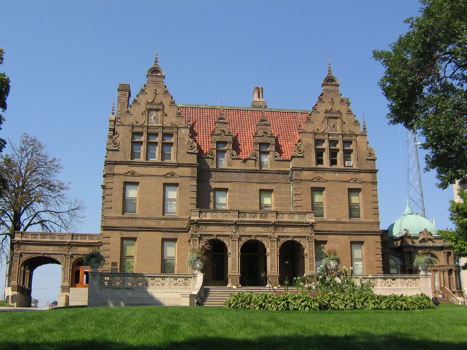 The Pabst Mansion on Wisconsin Ave in the Avenues West neighborhood in Milwaukee, Wisconsin.